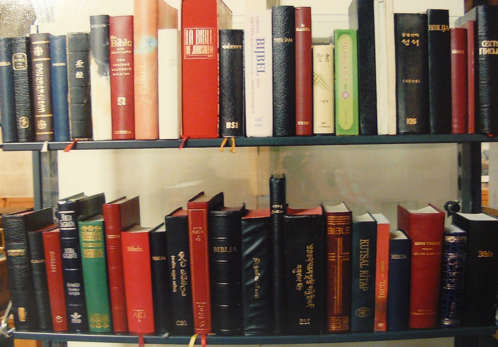 Collection of the Bible. Zurich, Predigerkirche.